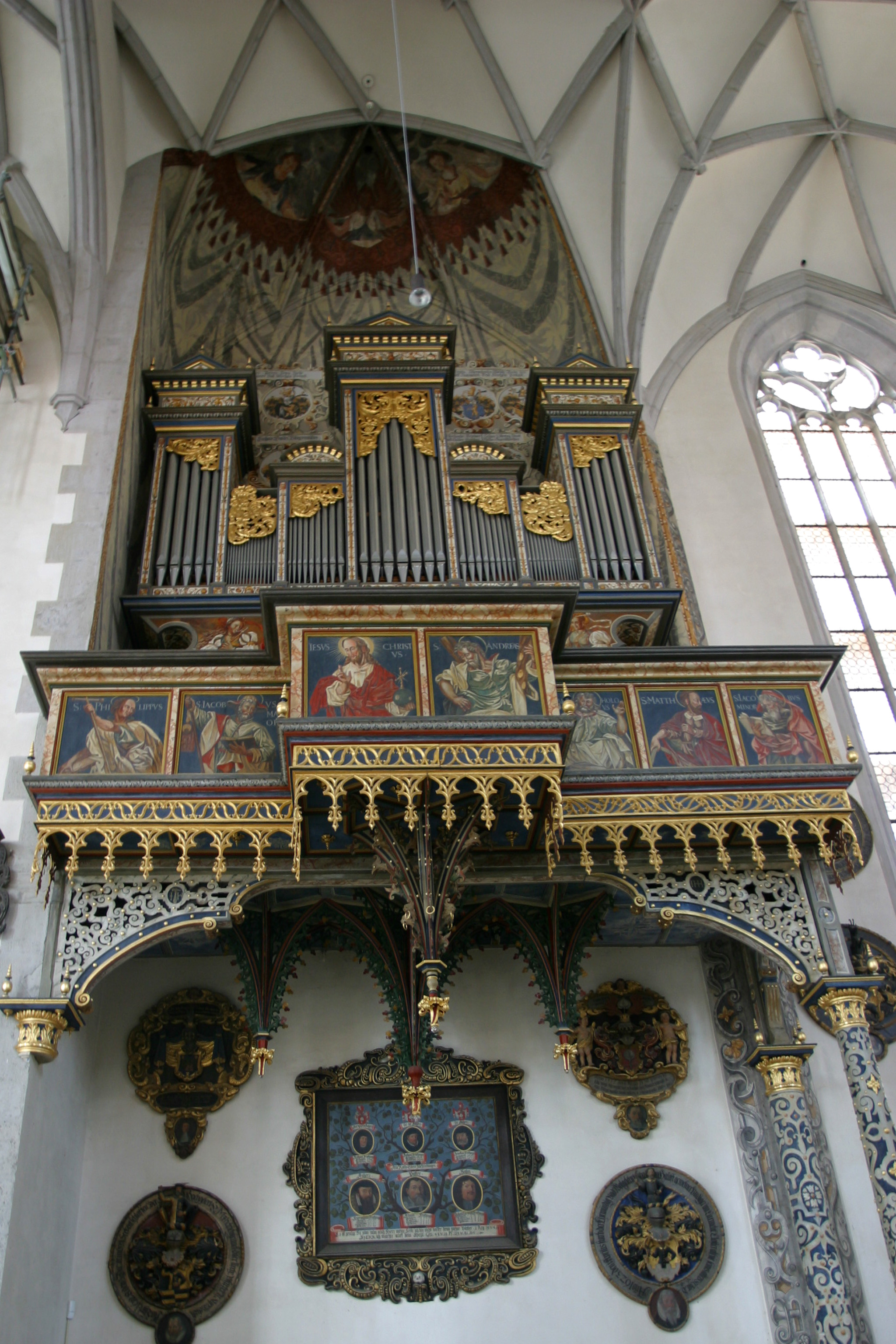 Nördlingen (Bayern), Church St. Georg, side organ (1976) in a Renaissance organ prospect